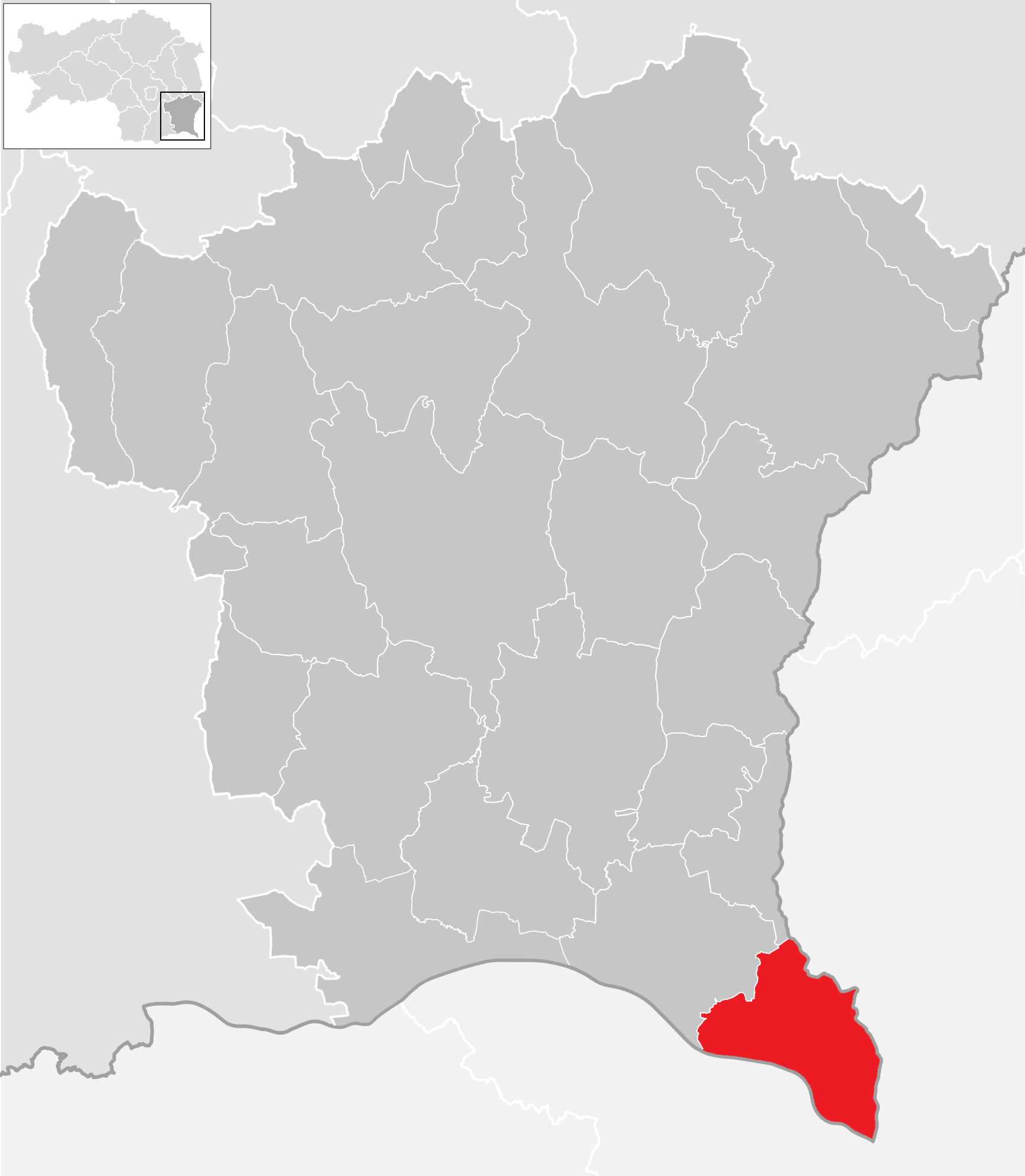 district Südoststeiermark